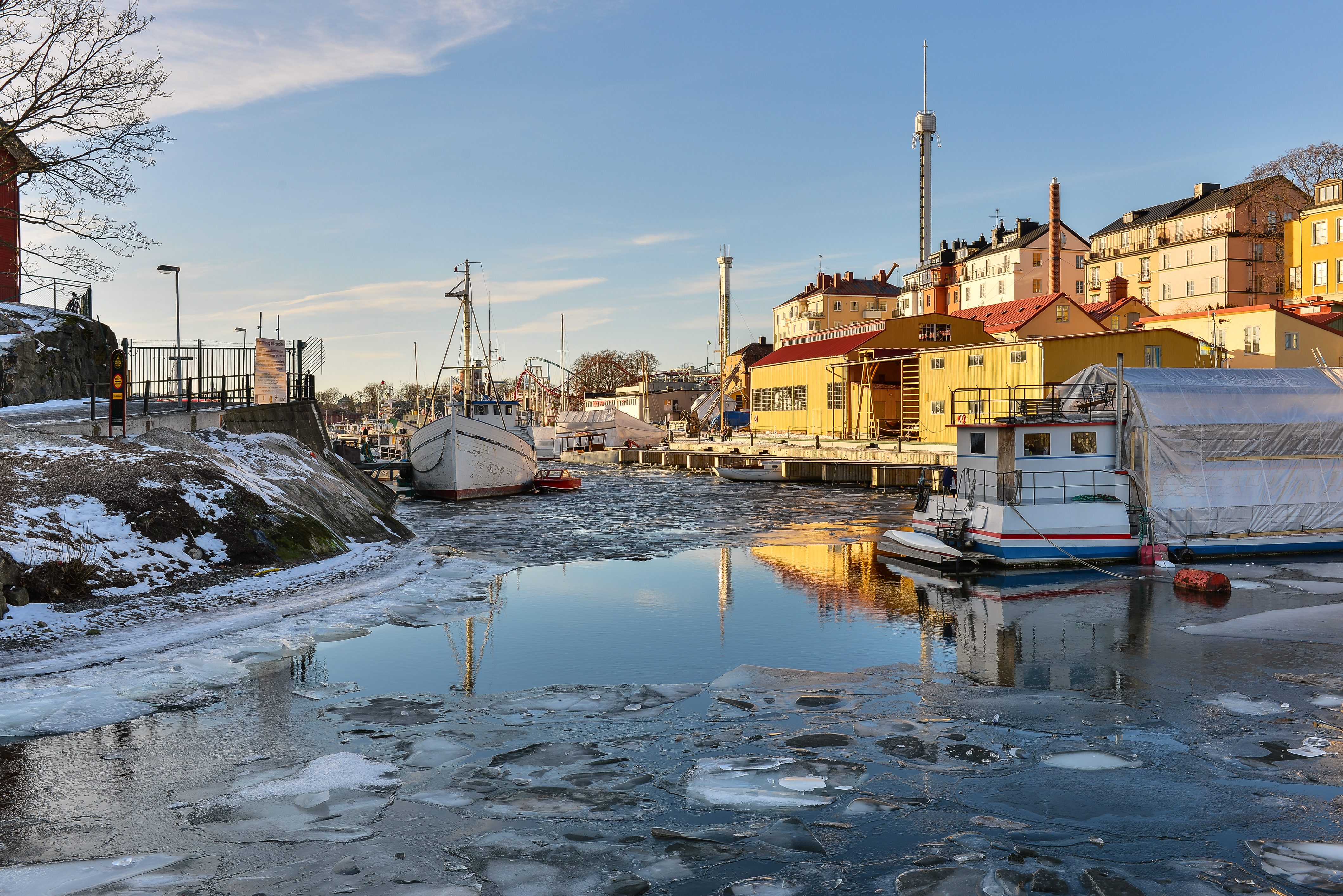 Djurgårdsvarvet, a historic ship yard at Djurgården, Stockholm. In the background Gröna Lund. Taken using the built-in High dynamic range (2 expouser, 3EV).